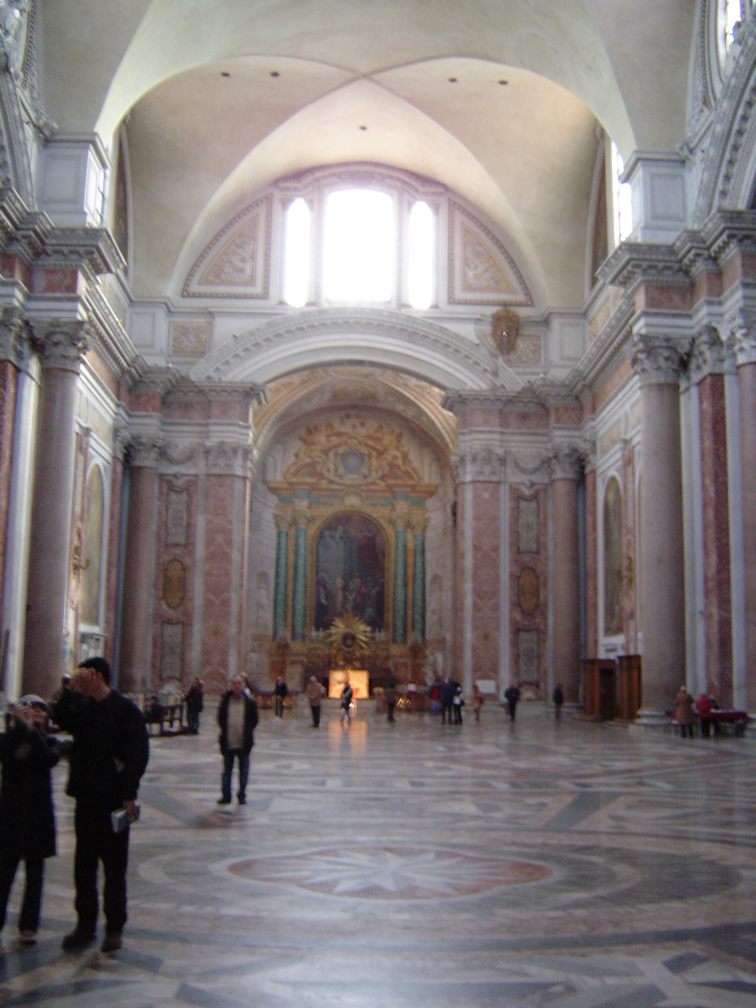 Santa Maria degli Angeli in Rome, Italy: the Albergati chapel. Picture by Joris, 5-01-2006.